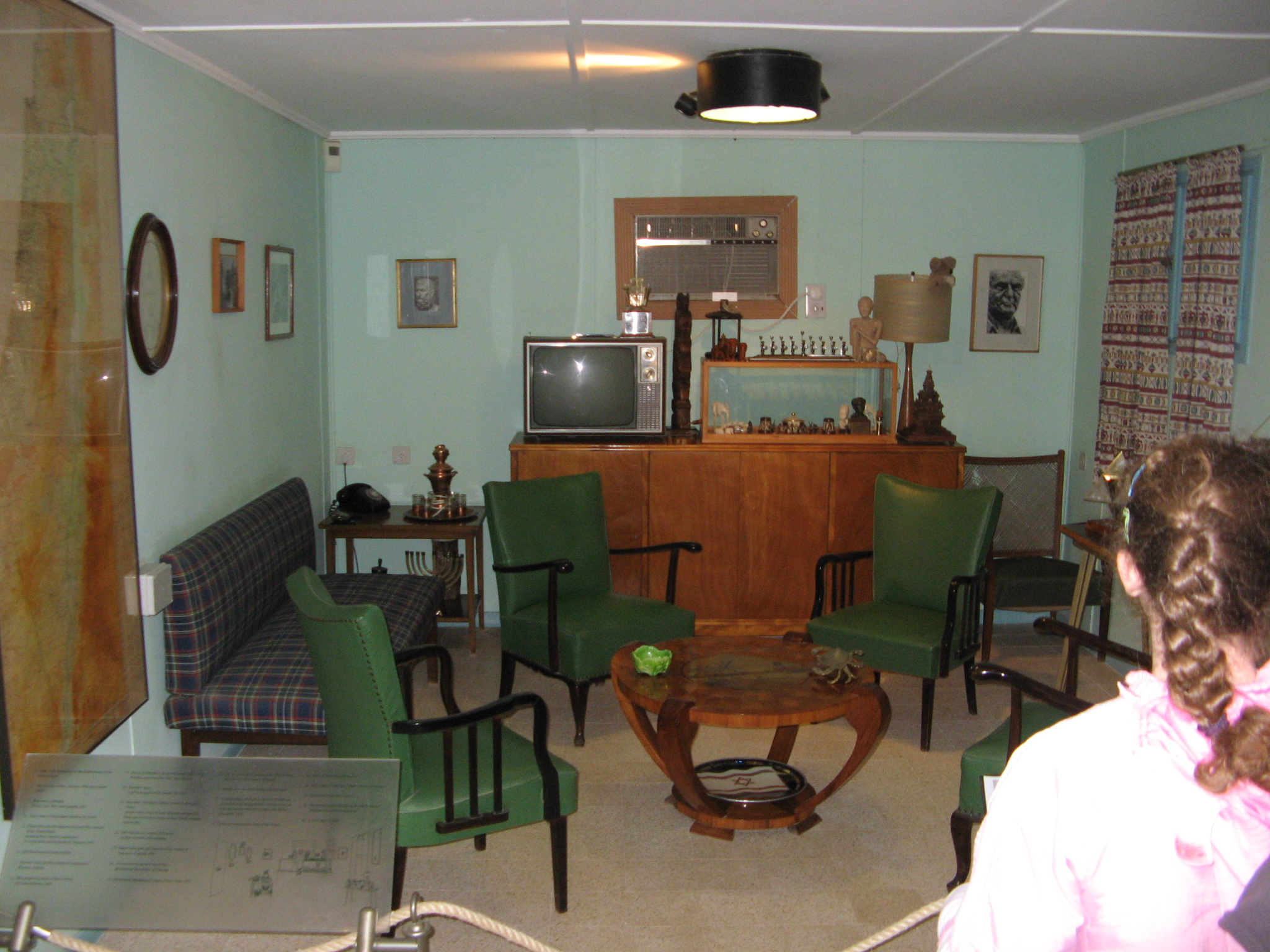 The guest room in ben Gurion's shack in Sdeh Boker